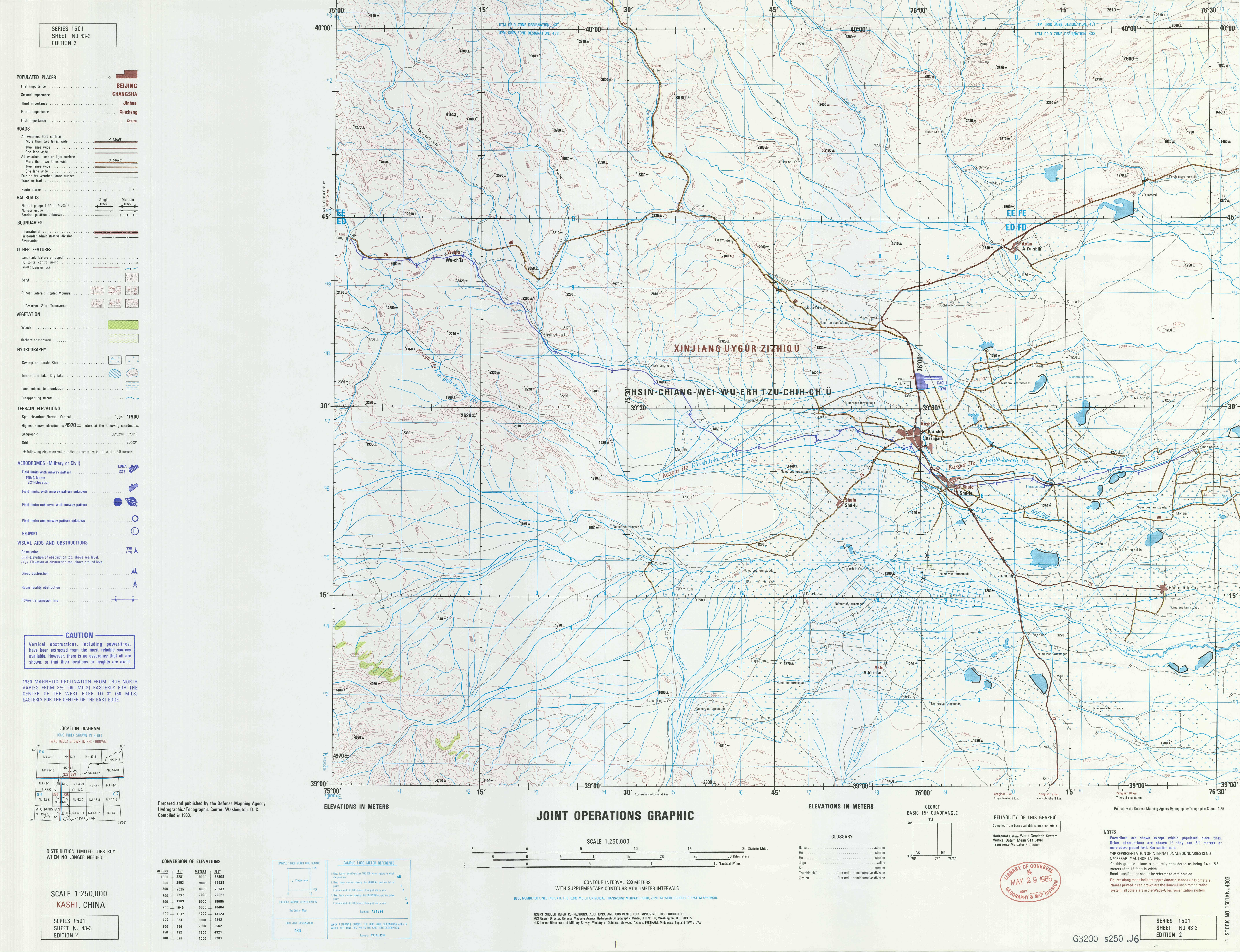 NJ-43-3 Kashi, China